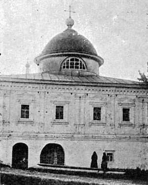 Alexius church in Gorny Monastery in Vologda